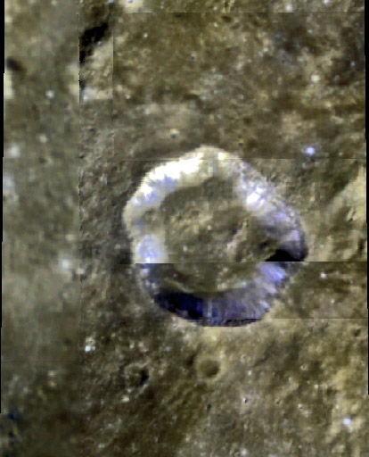 Theaetetus lunar crater - Clementine UV image.